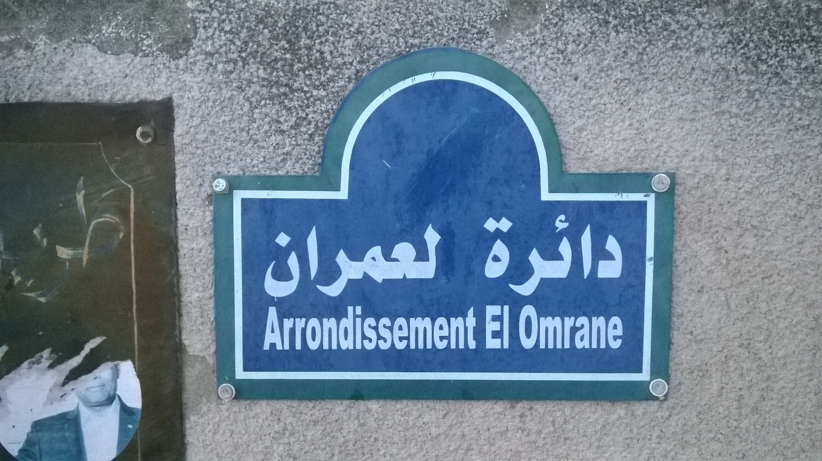 El Omrane , Tunis